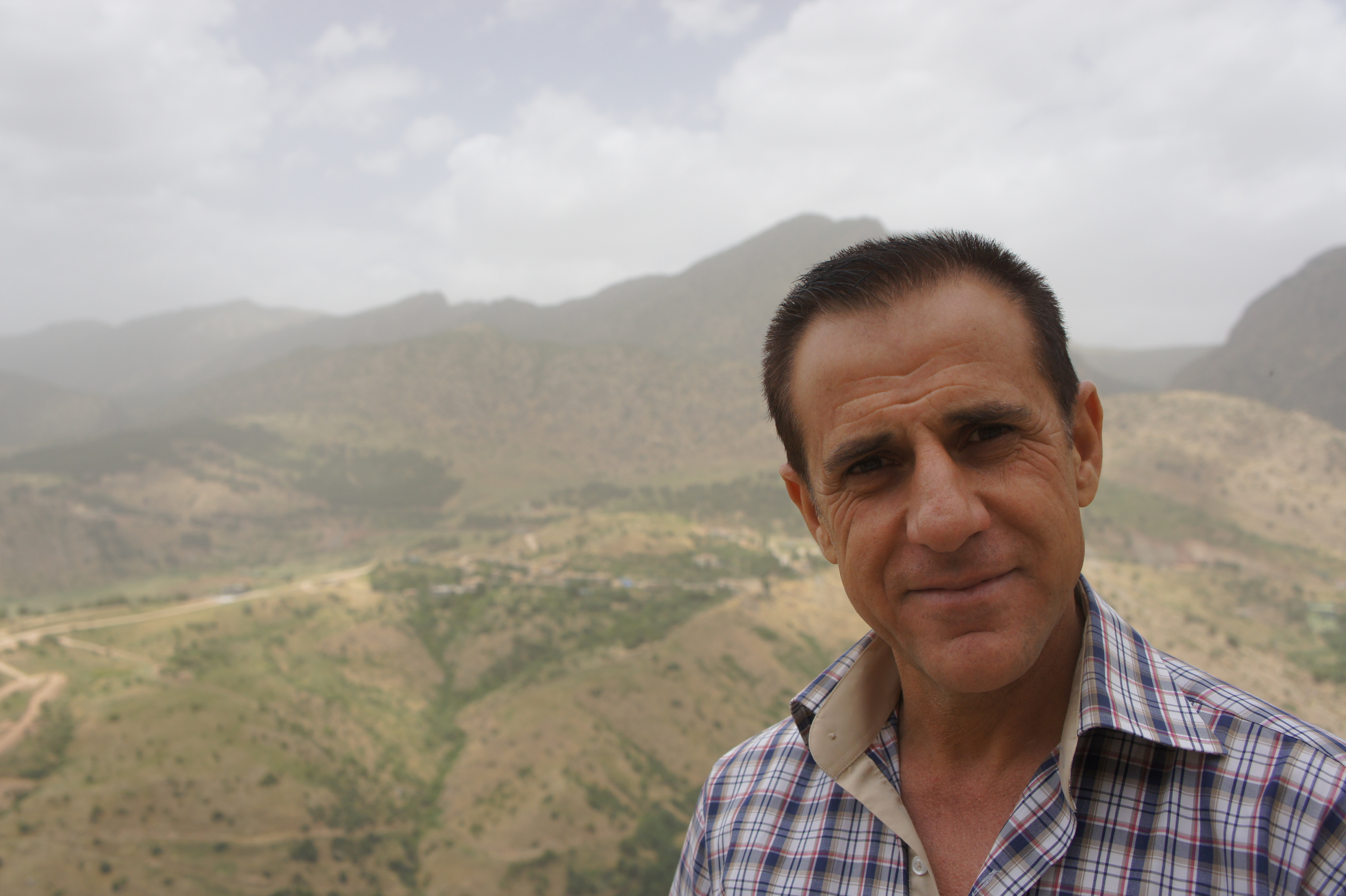 The Kurdish writer and poet Bilind Mihemed (2012). Kurdî: Nivîskar û helbestvanê kurdî Bilind Mihemed (2012).